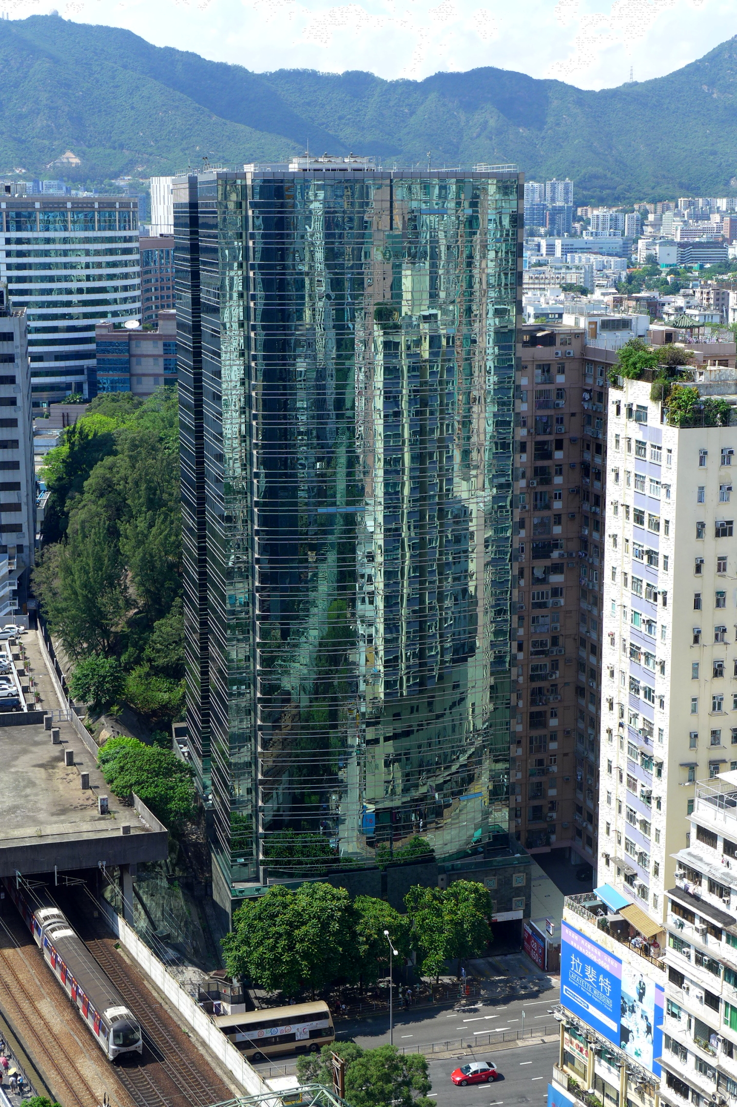 113 Argyle Street